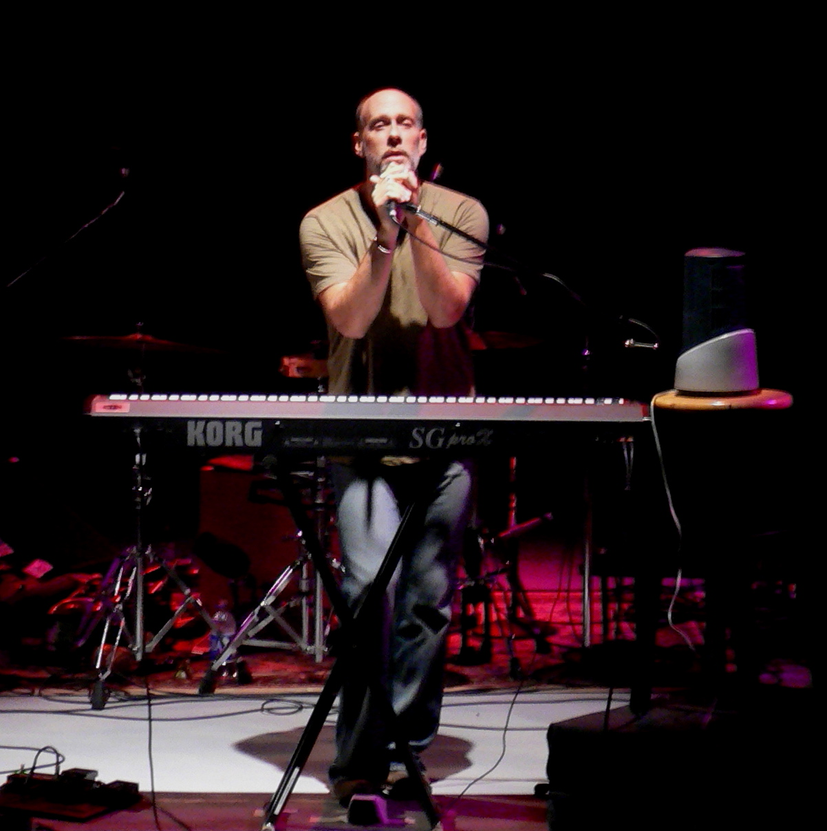 Marc Cohn at a concert in Saratoga